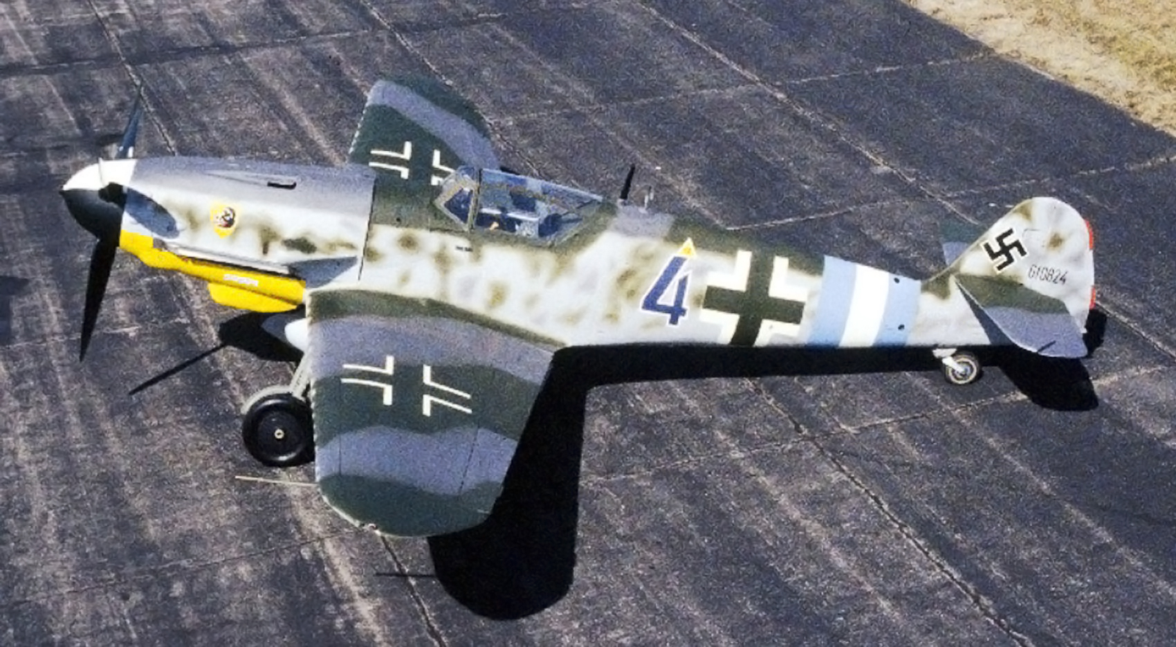 DAYTON, Ohio -- Messerschmitt Bf 109G-10 at the National Museum of the United States Air Force. (U.S. Air Force photo) High-resolution image of a Bf-109, a German WWII fighter aircraft